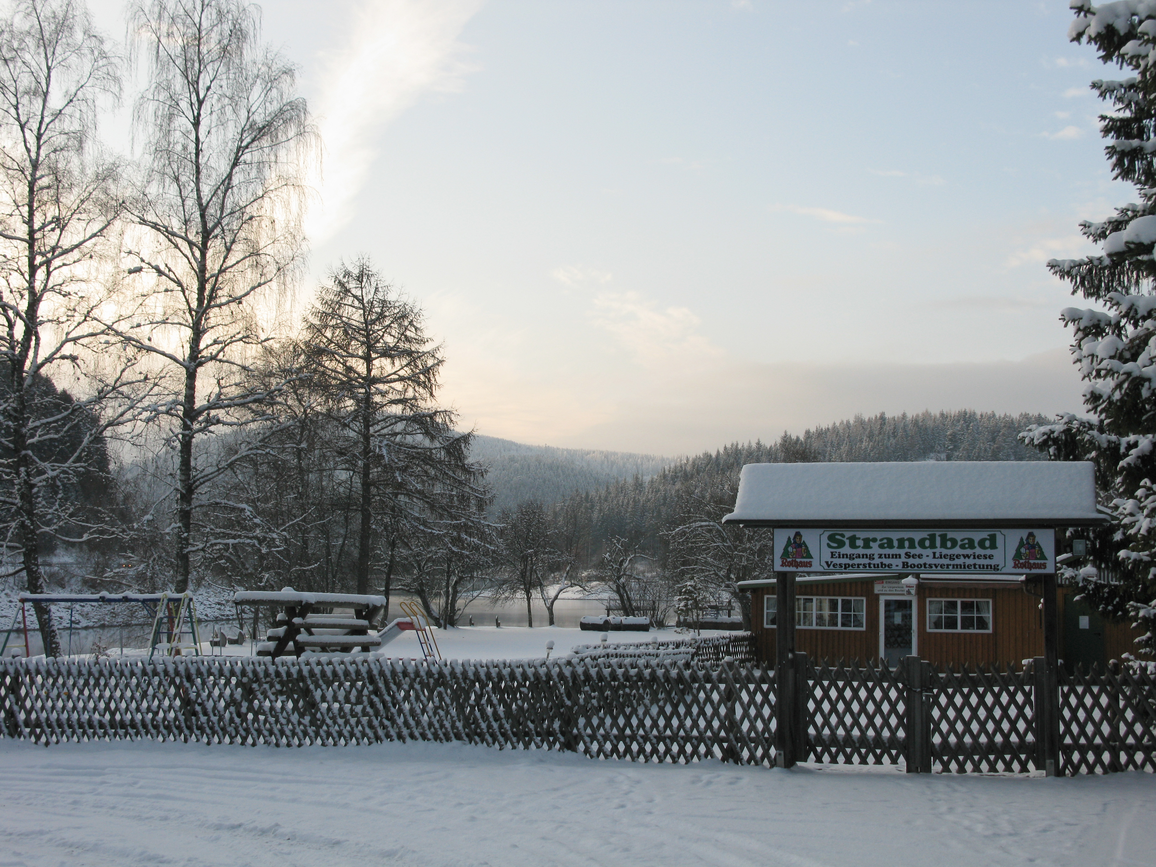 Seebrugg lido